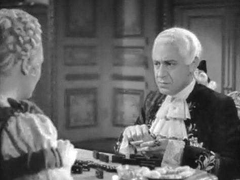 Henry O'Neill in the trailer for Mme Du Barry (1934). Film trailers from before 1964 are in the public domain.